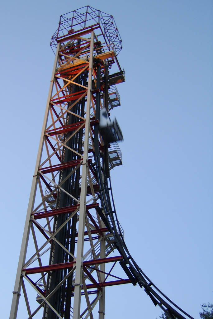 Freefall at Six Flags Over Georgia. This ride has since been closed and removed. Taken in 2006